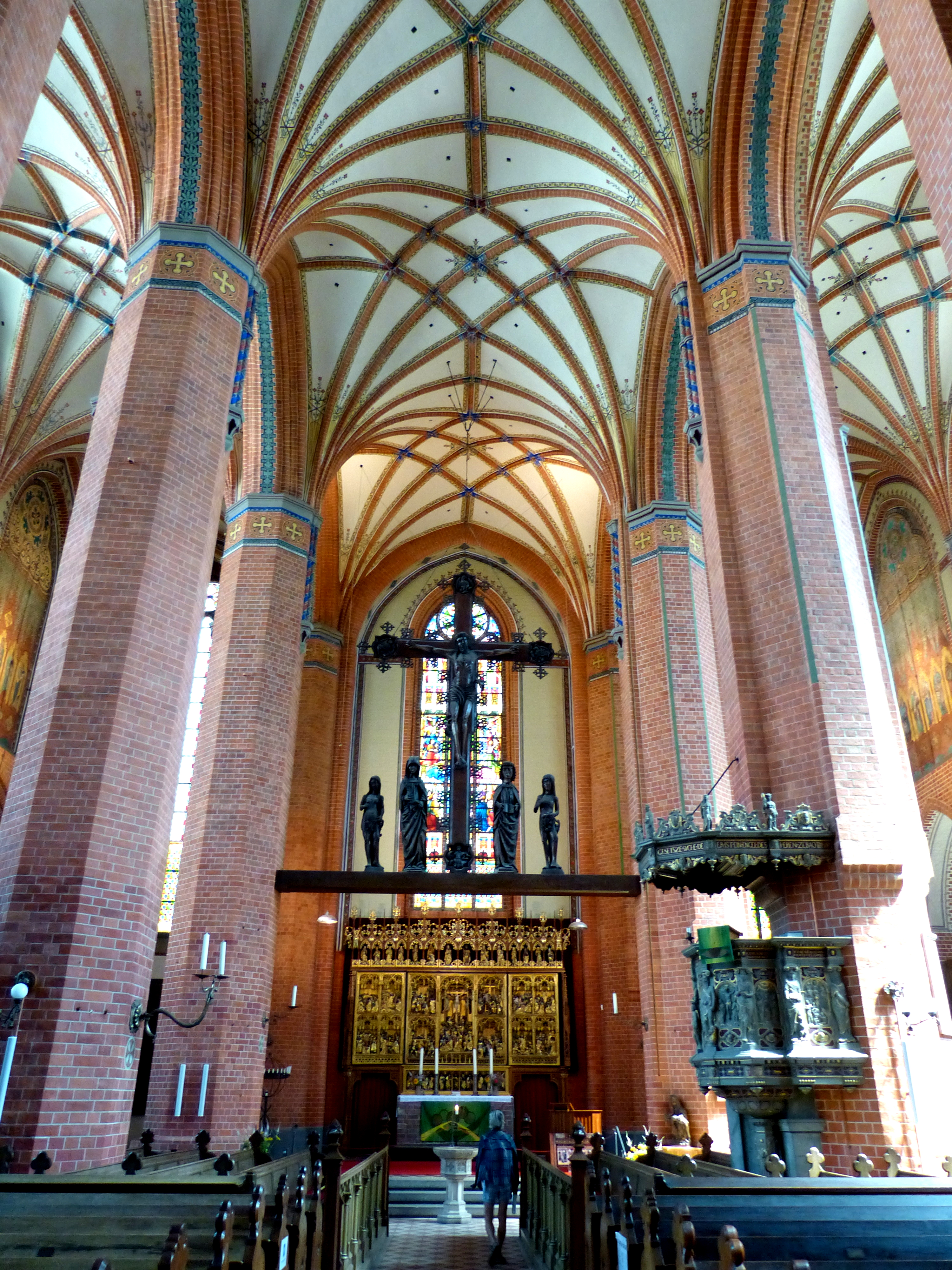 Güstrow ( Mecklenburg-Vorpommern ). Saint Mary parish church: Interior.